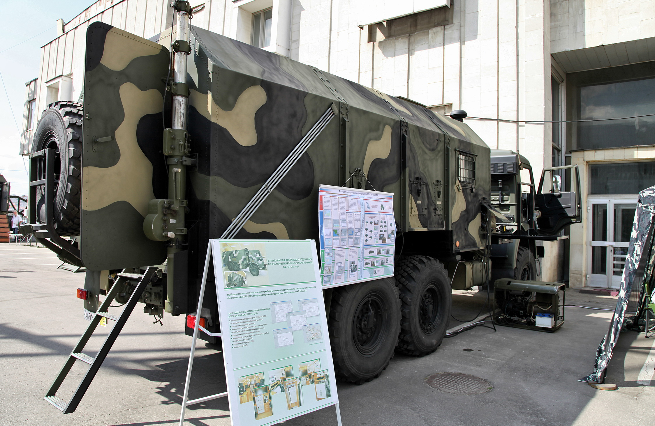 Command vehicle for military district level command post MSh-12 Svetlitsa.